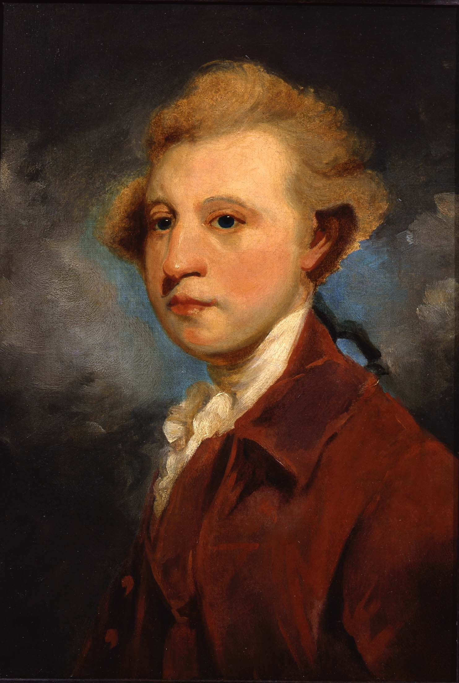 A portrait of William Ponsonby, 2nd Earl of Bessborough (1704–1793).